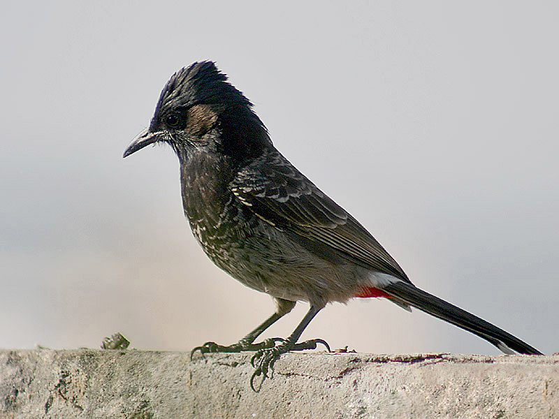 Red-vented Bulbul Pycnonotus cafer in Kolkata, West Bengal, India.